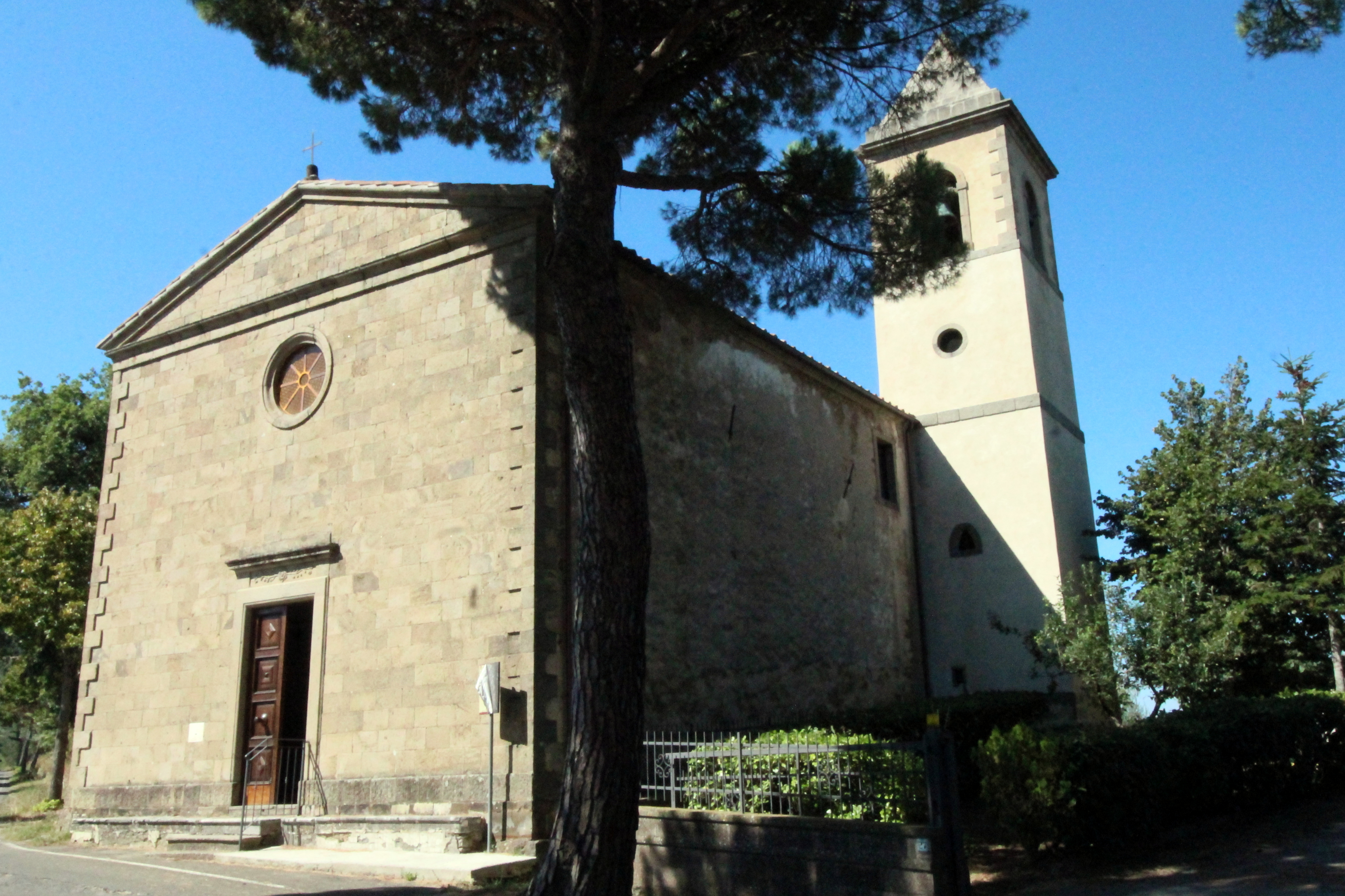 Church Madonna degli Schiavi, also called Madonna delle Grazie, outside Montegiovi, hamlet of Castel del Piano, Province of Grosseto, Tuscany, Italy